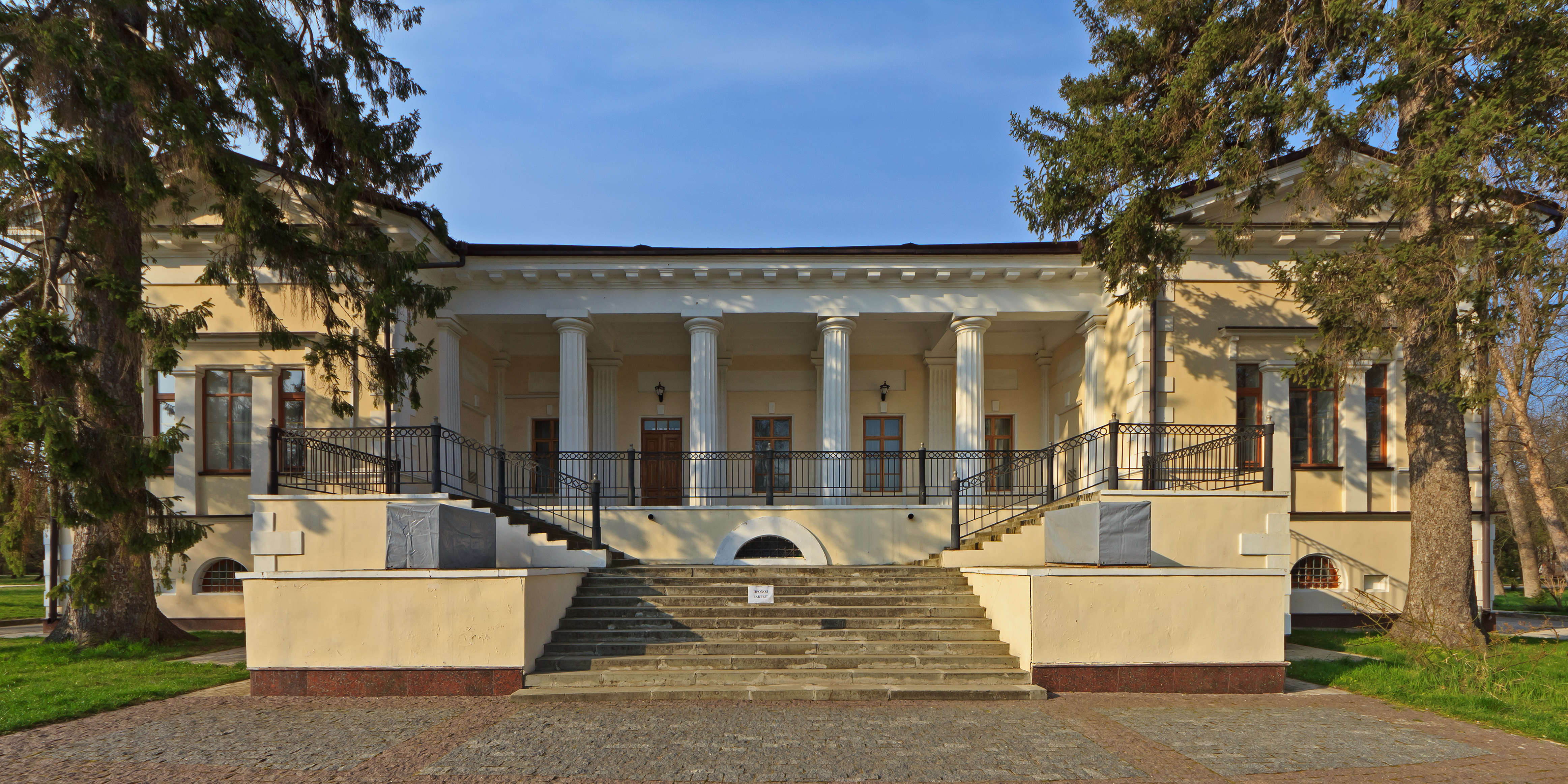 Vorontsov Manor in the botanical garden in Simferopol, Crimean Peninsula.